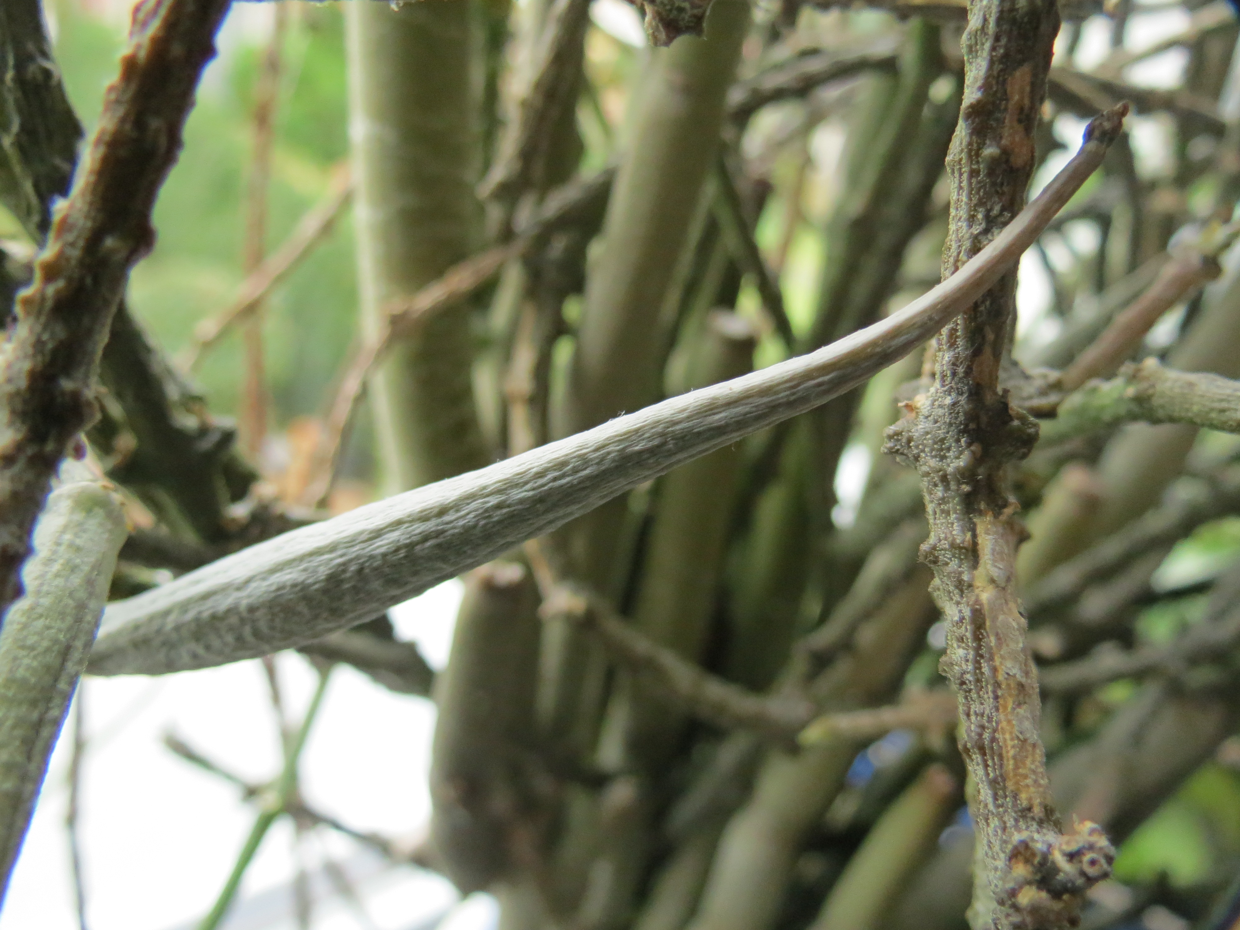 Cynanchum marnierianum Rauh, follicle